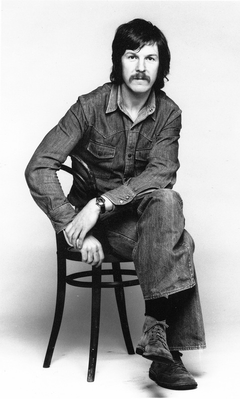 Photo of Klaus Harmony c.1977